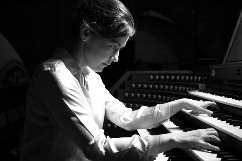 Zuzana Ferjenčíková at the console of the Stahlhuth/Jann organ of Saint Martin of Dudelange, Grand-Duchy of Luxembourg, January 20th, 2018. Author: Jean Lemoine